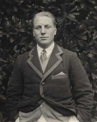 Andrew Irvine. Photograph by Christina Livingston